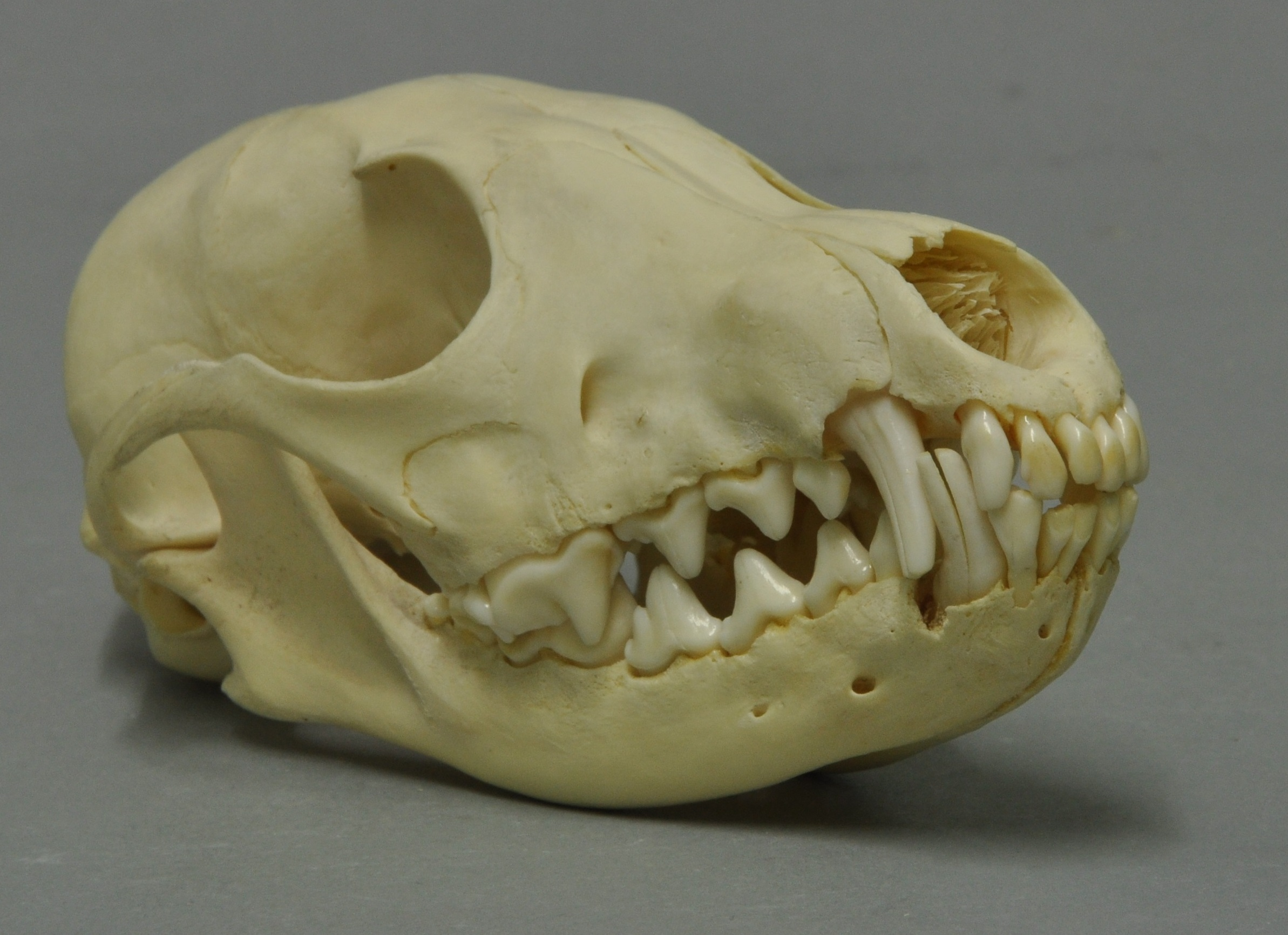 Arctic fox Alopex lagopus, skull, Coll. Museum Wiesbaden